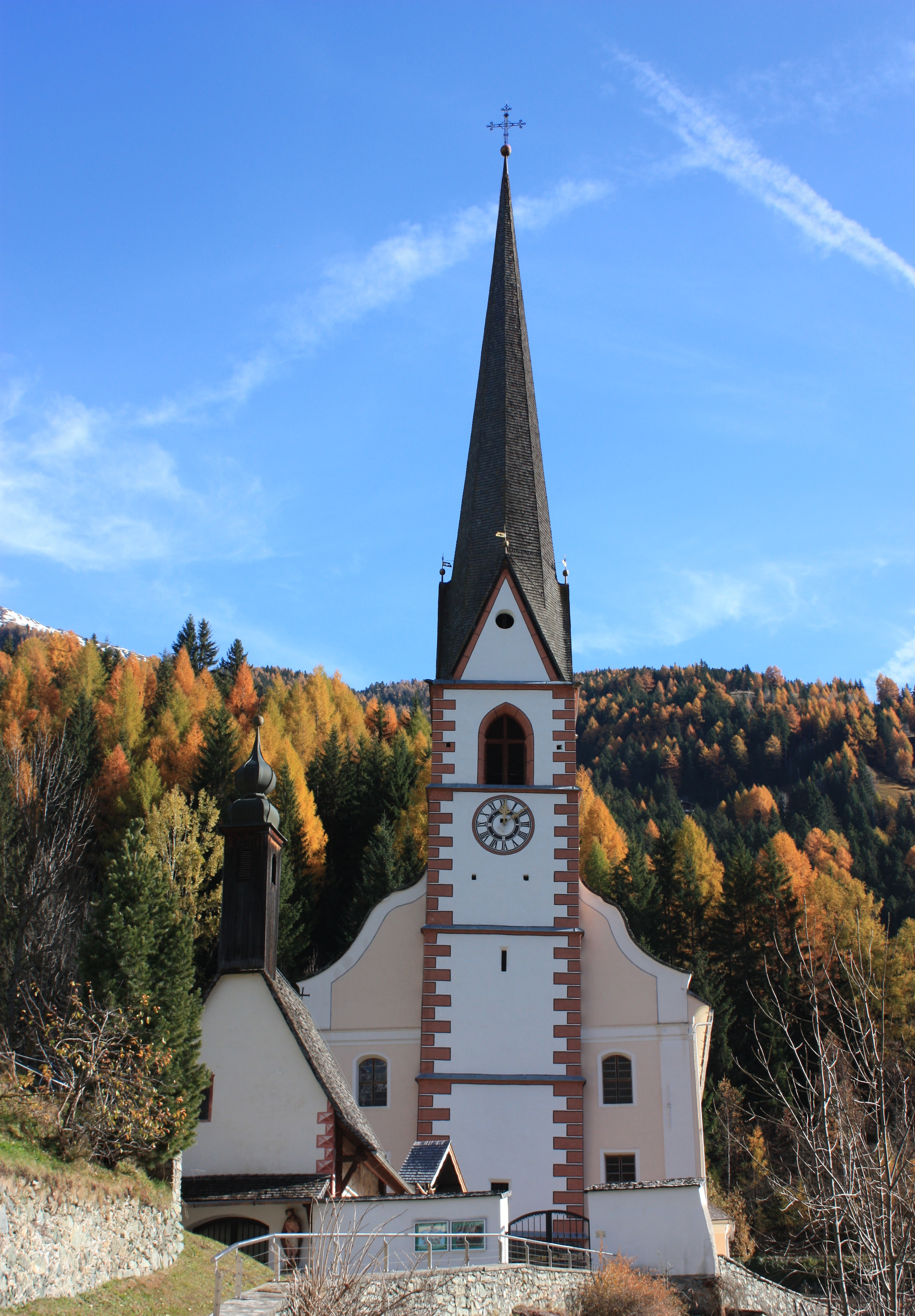 Parish church St. George Locality: Sagritz Community:Großkirchheim